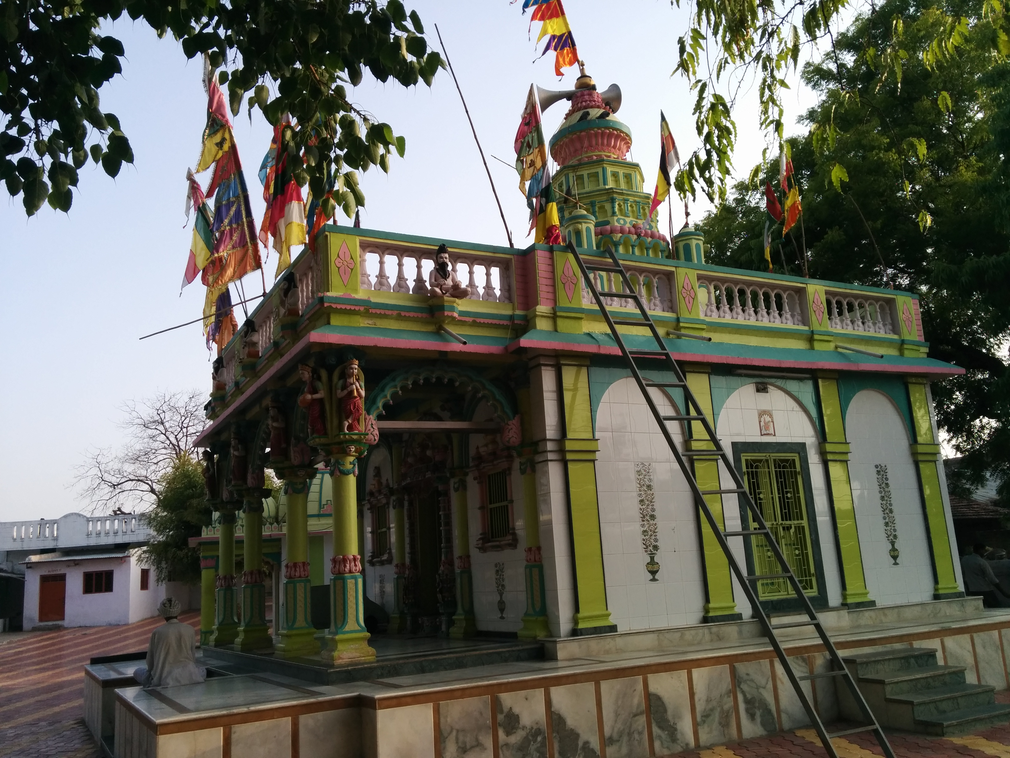 Around 180 years old temple at Majadar village in North Gujarat.